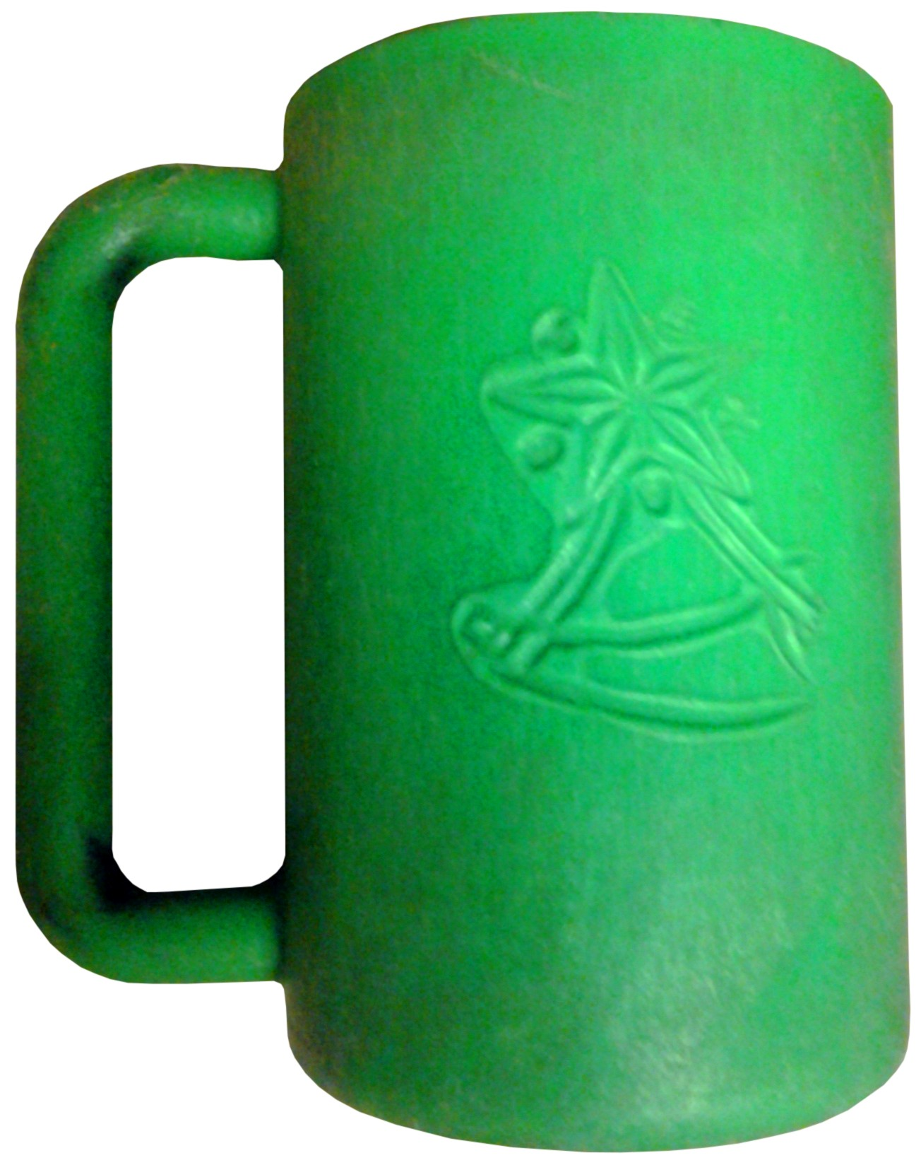 A plastic camping mug branded with the Texas Powder Horn logo.